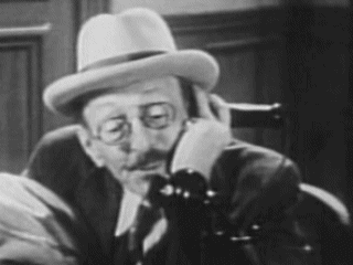 Clarence Wilson in A Shriek in the Night - cropped screenshot